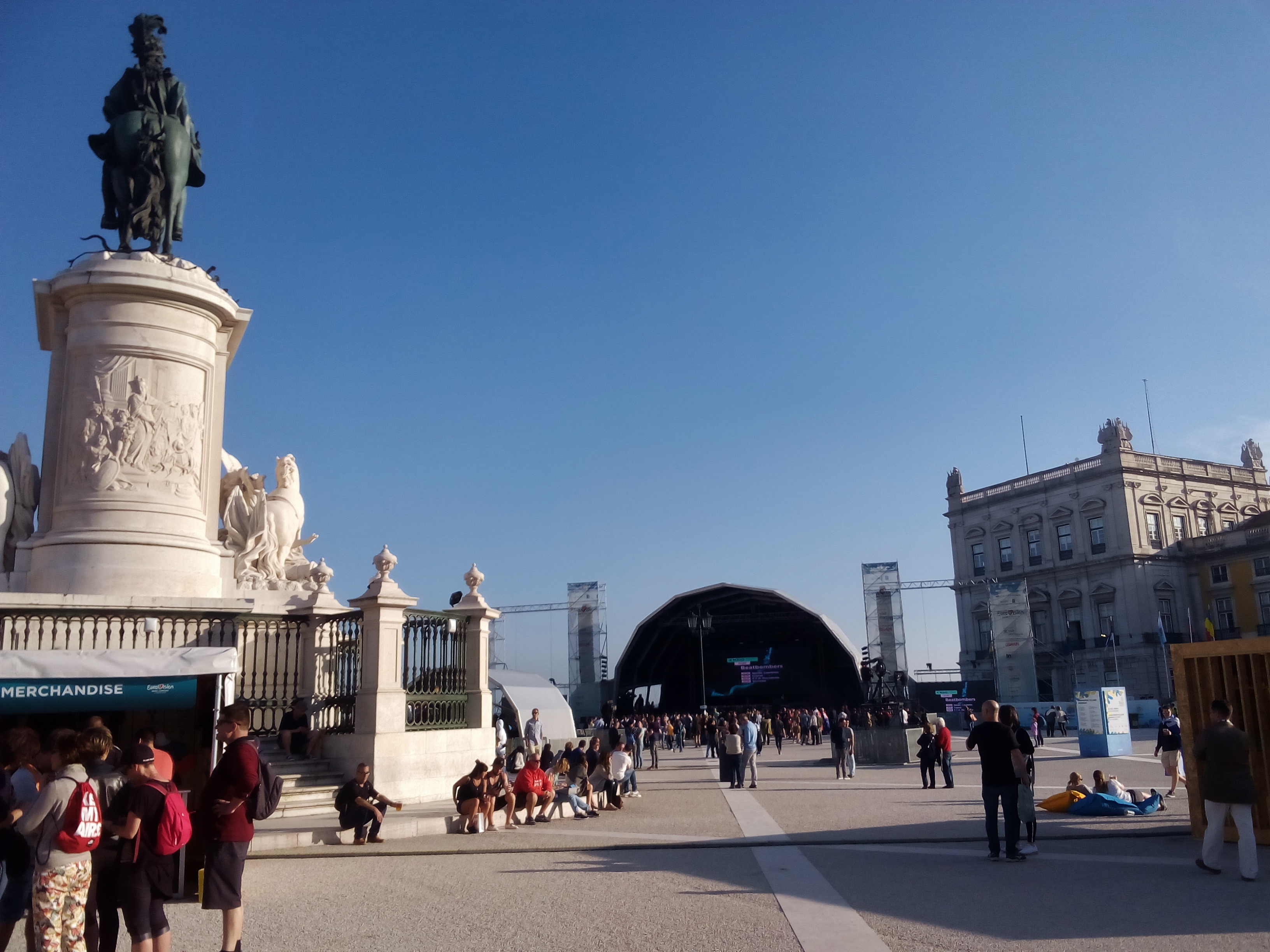 The Eurovision Village, in the Commerce Square, Lisbon